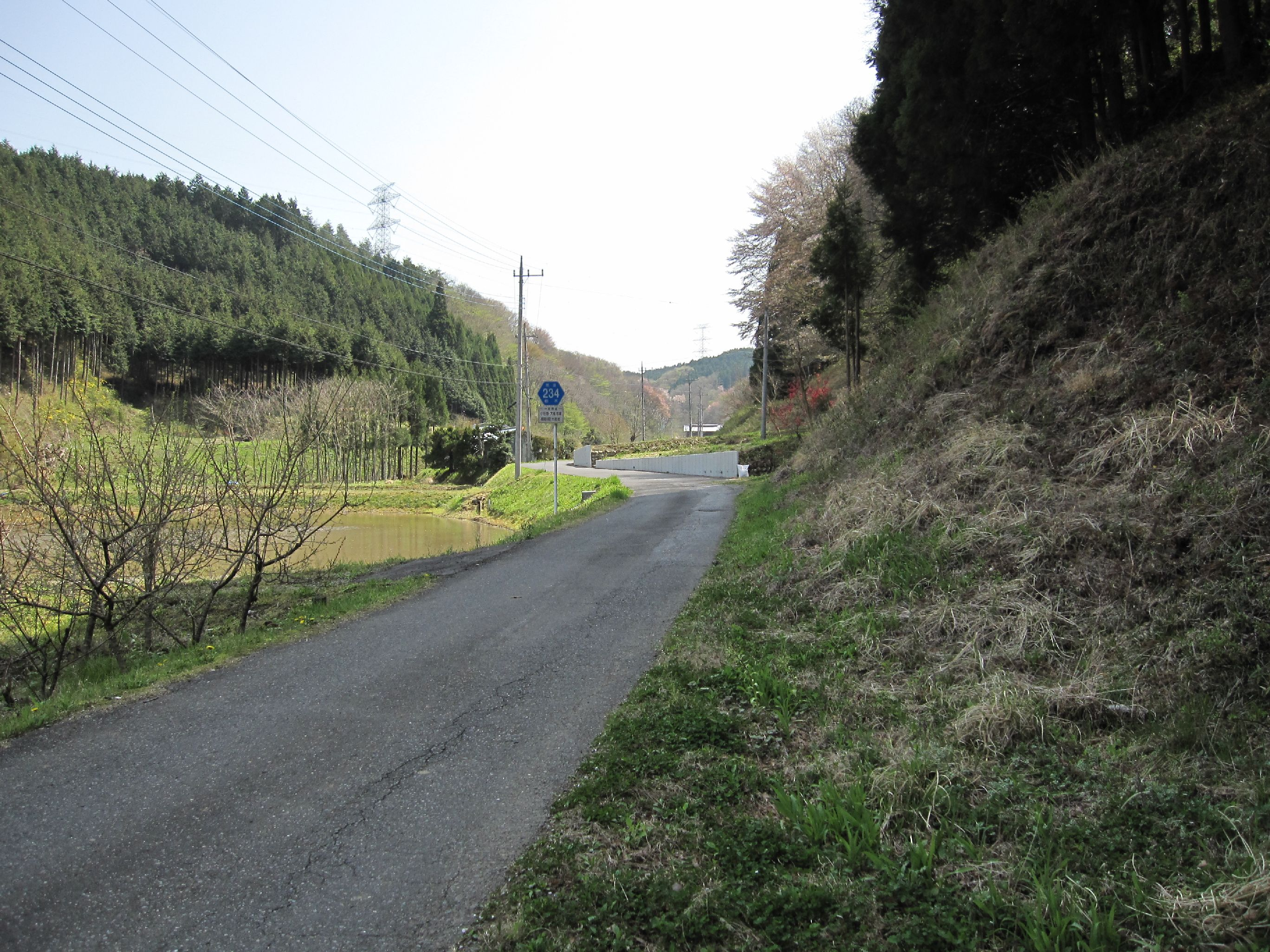 The Tochigi Prefectural Road Route 234 in Onachi, Nakagawa Town